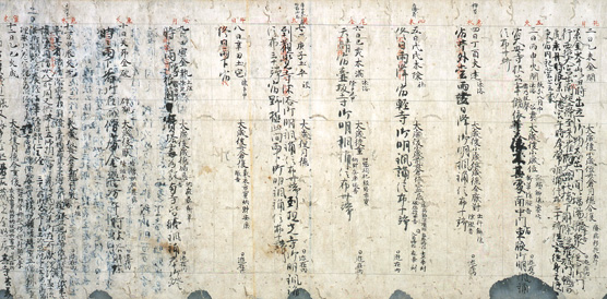 Diary of Fujiwara no Michinaga (御堂関白記, Midō Kanpakuki). Part of 14 volumes in his own handwriting and 12 other volumes. It covers the years from 998 to 1021 with interruptions. Located at Yōmei Bunko, Kyoto, Japan. The diary has been designated as National Treasure of Japan in the category ancient documents.